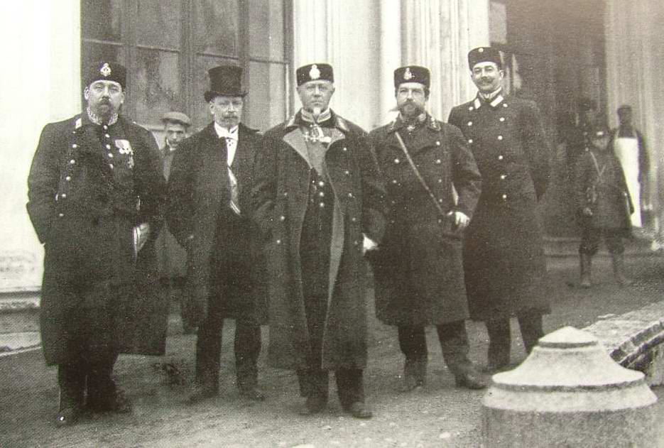 Duc Khilkov Mikhail (1834-1909) - Ministr of Russia